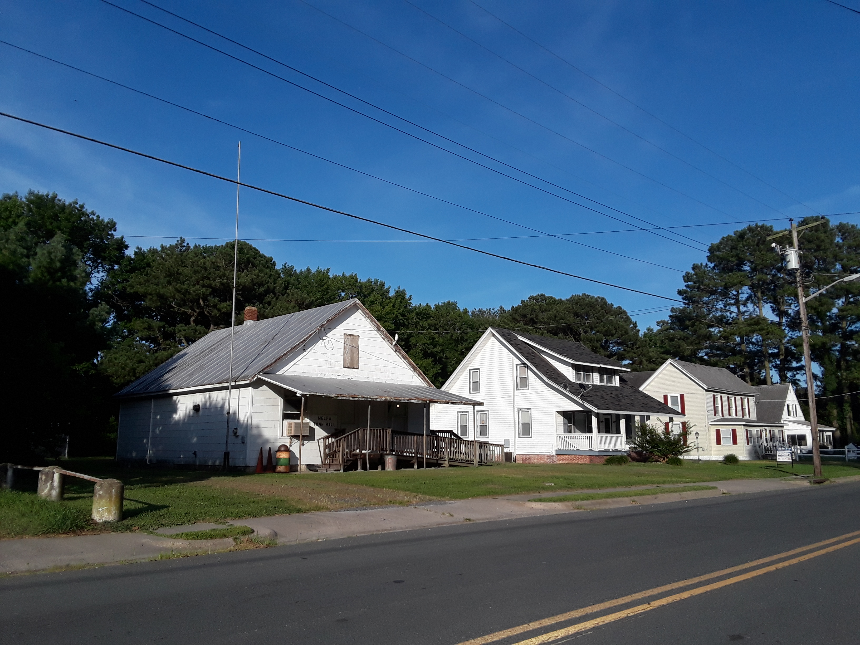 Taken on a visit to the Eastern Shore of Virginia, July 2018